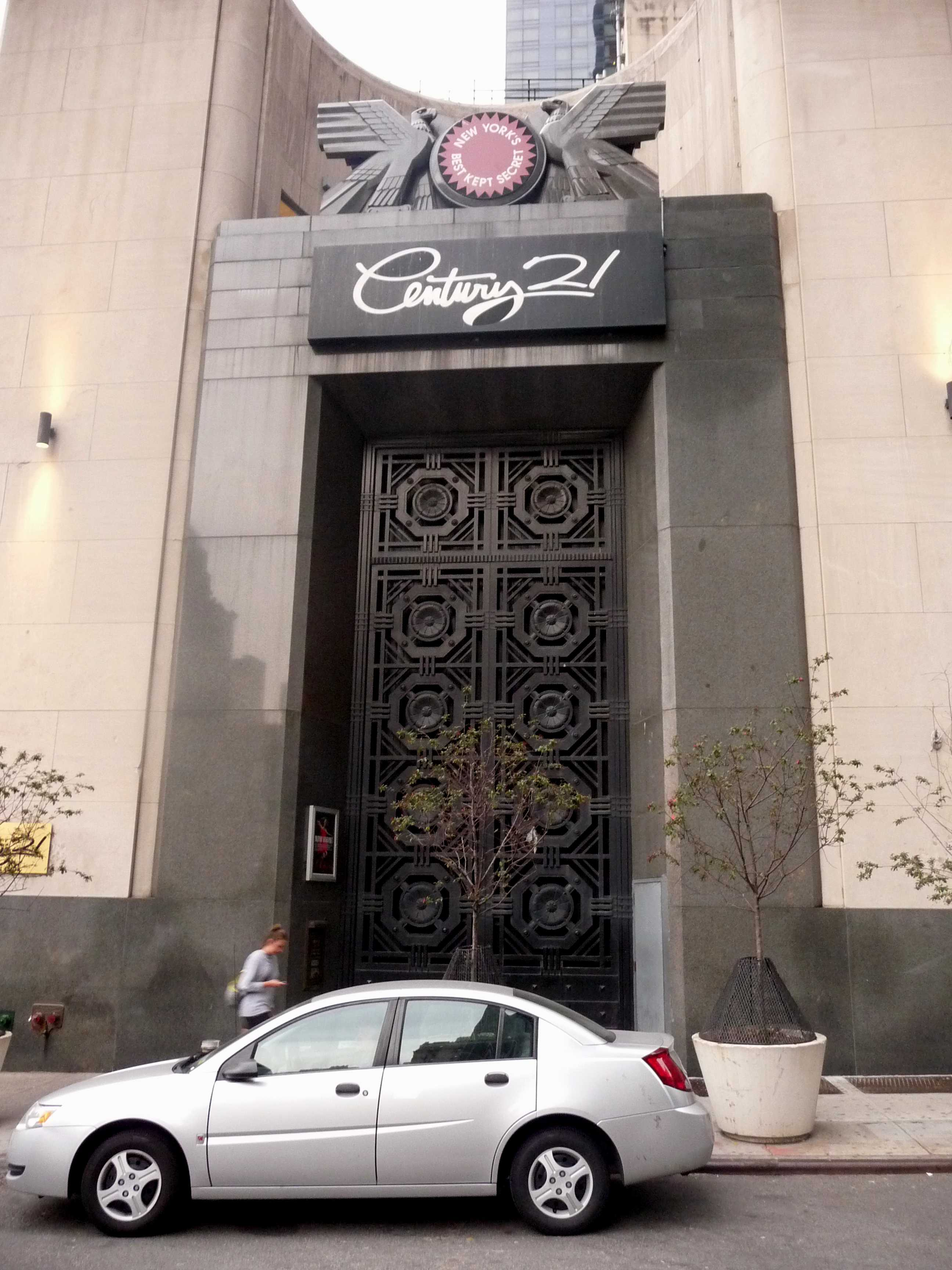 Century 21 main entrance at 26 Cortlandt Street between Broadway and Church Street in the Financial District of Manhattan. This is the original entrance to the East River Savings Bank, built in 1931-34 in the Neo-classical/Art Deco style as designed by Walker & Gillette.